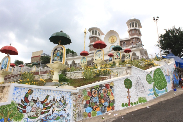 Mural from Pushpagiri